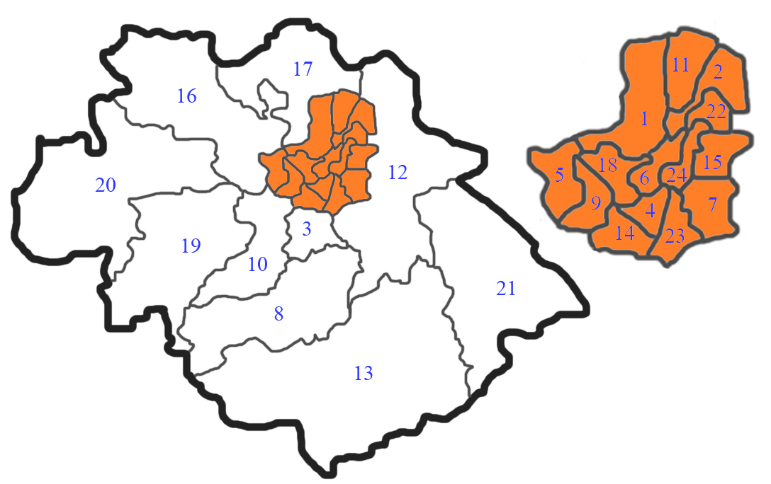 A map of the wards of Shrewsbury and Atcham district. Self created. Key: 1 Bagley 2 Battlefield and Heathgates 3 Bayston Hill 4 Belle Vue 5 Bowbrook 6 Castlefields and Quarry 7 Column 8 Condover 9 Copthorne 10 Hanwood and Longden 11 Harlescott 12 Haughmond and Attingham 13 Lawley 14 Meole Brace 15 Monkmoor 16 Montford 17 Pimhill 18 Porthill 19 Rea Valley 20 Rowton 21 Severn Valley 22 Sundorne 23 Sutton and Reabrook 24 Underdale